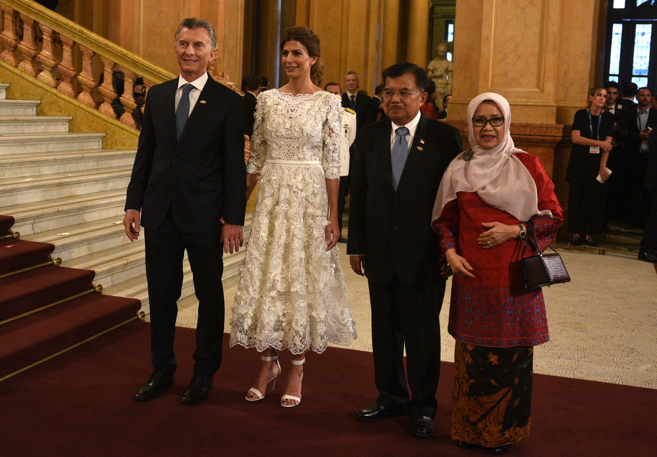 Leaders and their partners’ arrival at the Colón Theatre